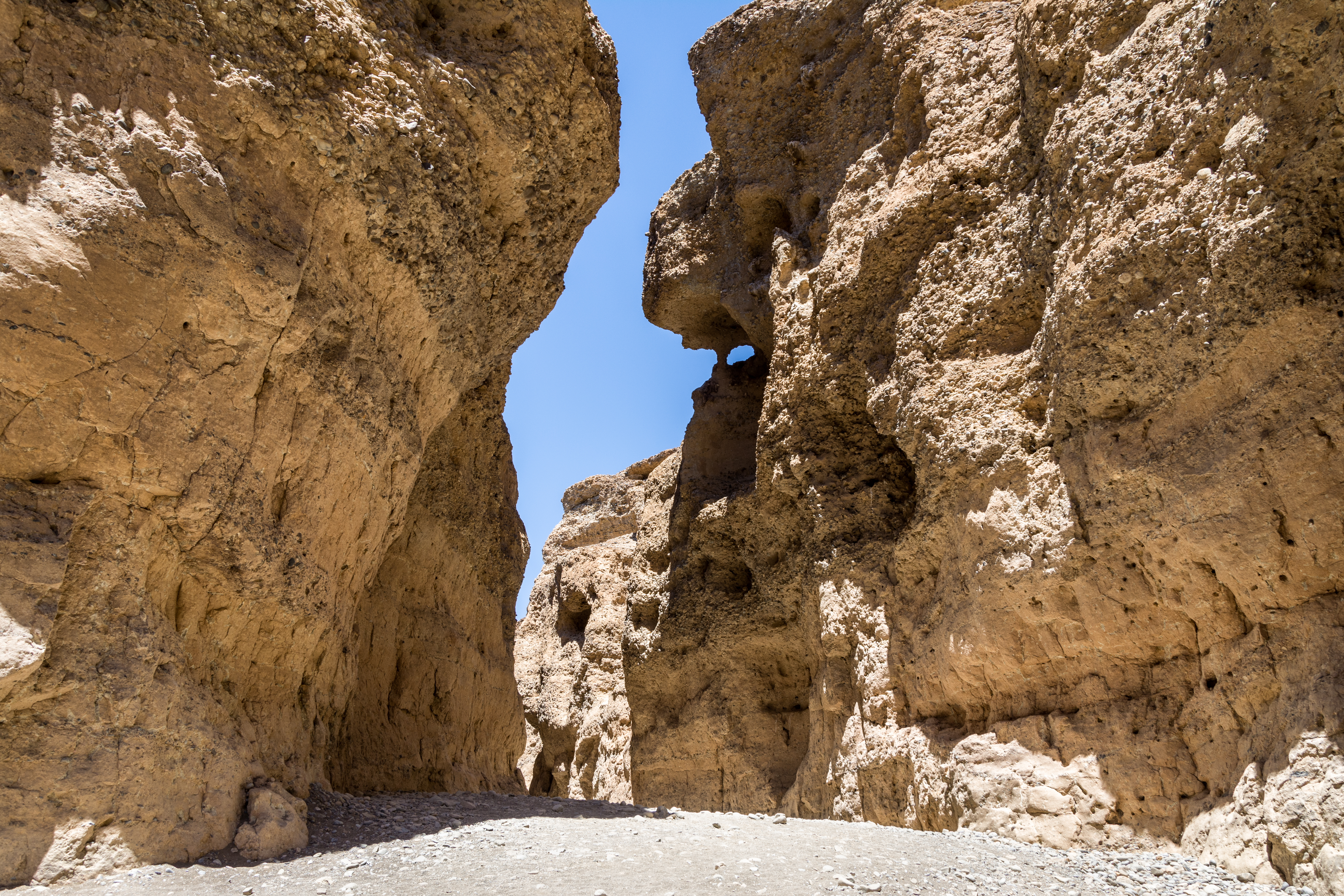 Sesriem